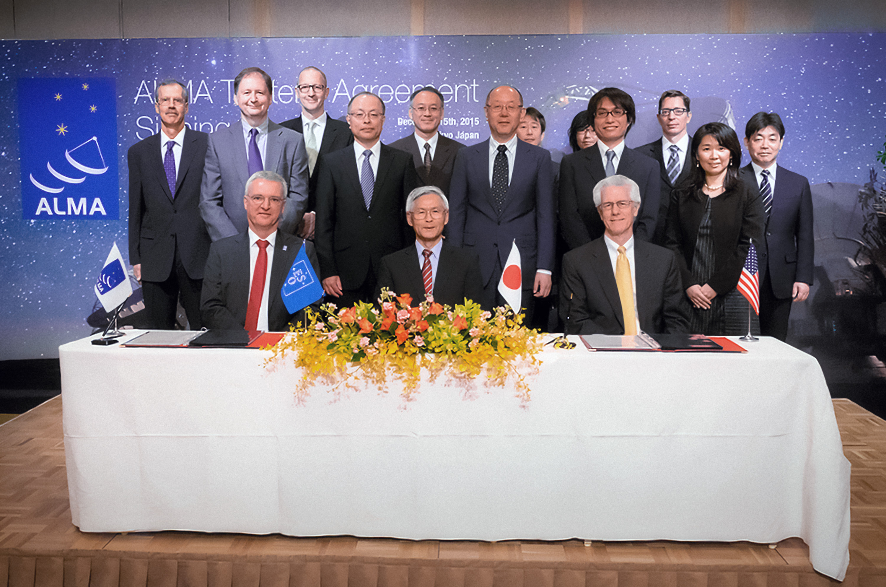 A trilateral agreement between ESO, the National Science Foundation (NSF) and the National Institutes of Natural Sciences (NINS), concerning the operation of ALMA was signed in Tokyo, Japan, on 15 December 2015. The contributions of the three international partners ensure the continued success of this transformational (sub-)millimetre observatory located on Chajnantor Plateau in northern Chile. The new agreement provides the framework for the long-term operations of ALMA over the next 30 years Tim de Zeeuw, ESO Director General (left), Katsuhiko Sato, NINS President (centre), and F. Fleming Crim, NSF Assistant Director (right, on behalf of France Córdova, NSF Director), represented the three partners at the ceremony and signed the ALMA Trilateral Agreement. Other staff members from ESO, the National Astronomical Observatory of Japan (NAOJ) and NSF were also in attendance.